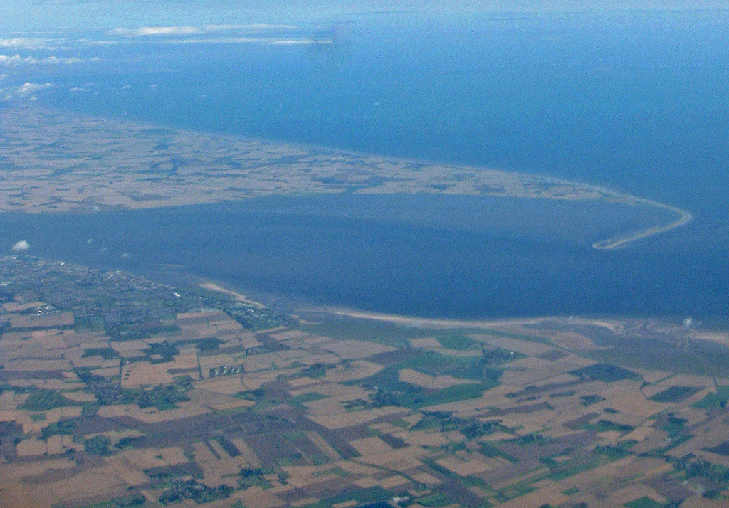 Spurn Head, East Riding of Yorkshire, England.and the Humber Estuary looking North from over North Lincolnshire.